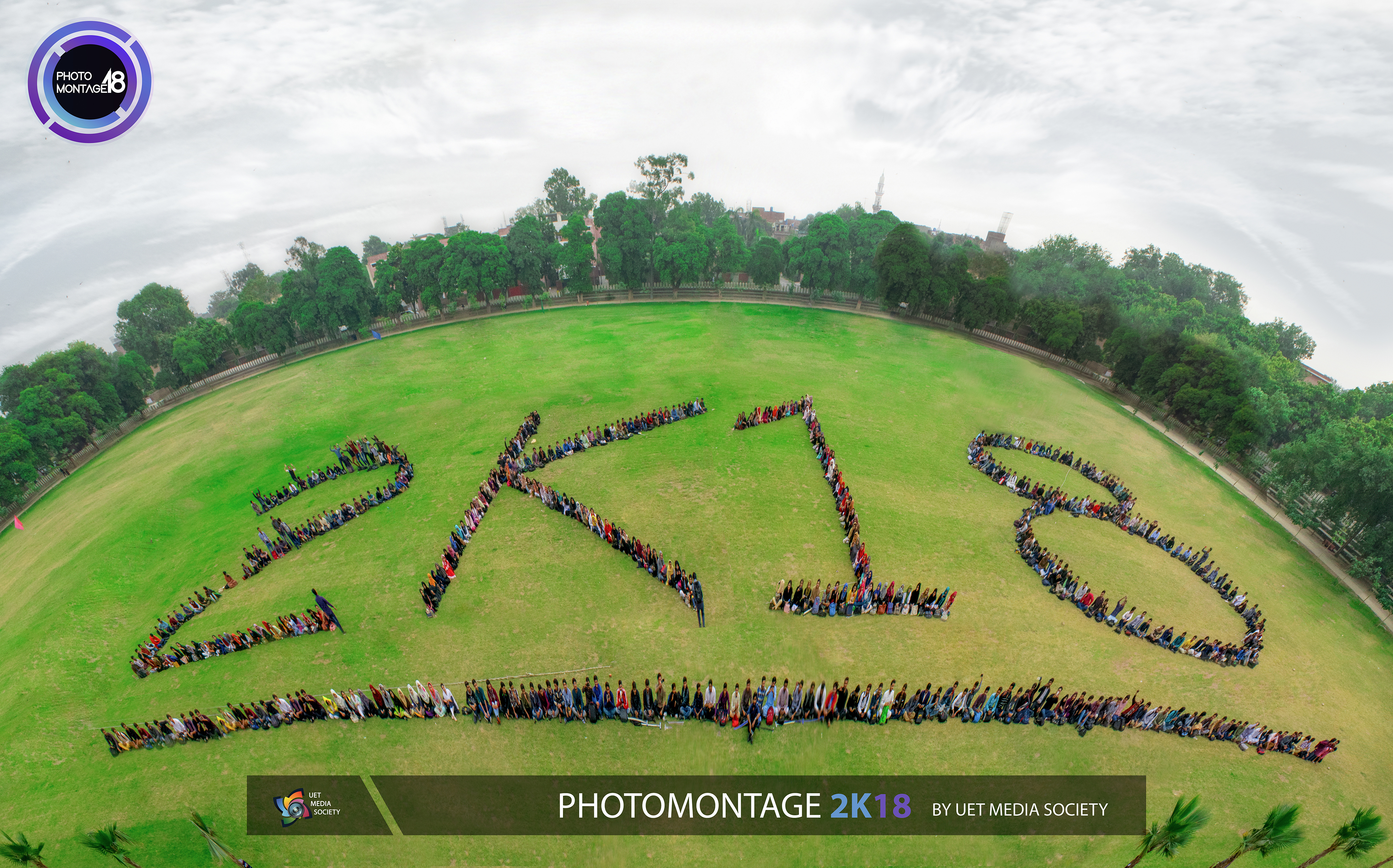 An event organized by UET MEDIA SOCIETY to welcome new batch every year.